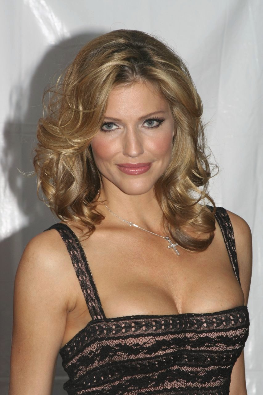 Tricia Helfer at Scream Awards 2007